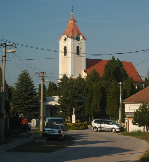 Čáry, church